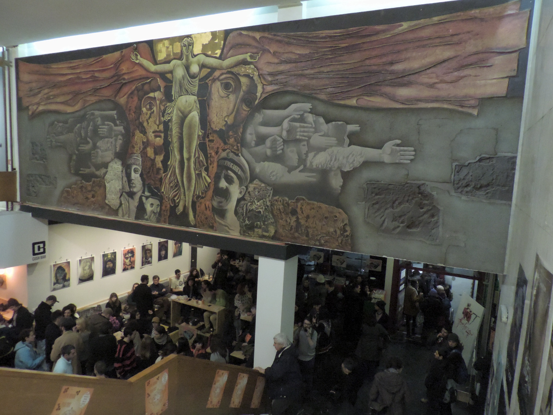 House of Cinema in Sofia – the foyer on the first floor. Partly seen a wall mural by Mihalis Garudis and Kolyo Getsov from 1976.